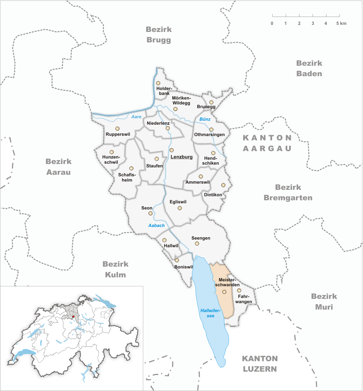 Municipality Meisterschwanden